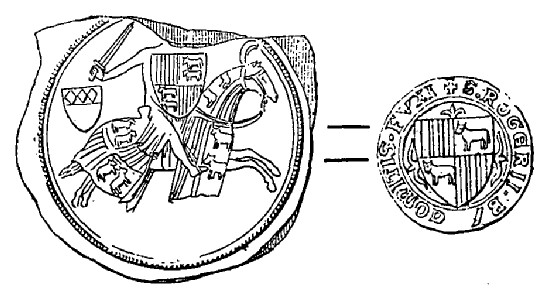 Seal of Roger-Bernard III, Count of Foix.